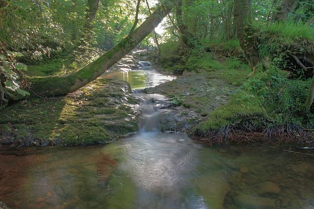 Afon Tarell Upstream from the Rhydywernen Farm footbridge.